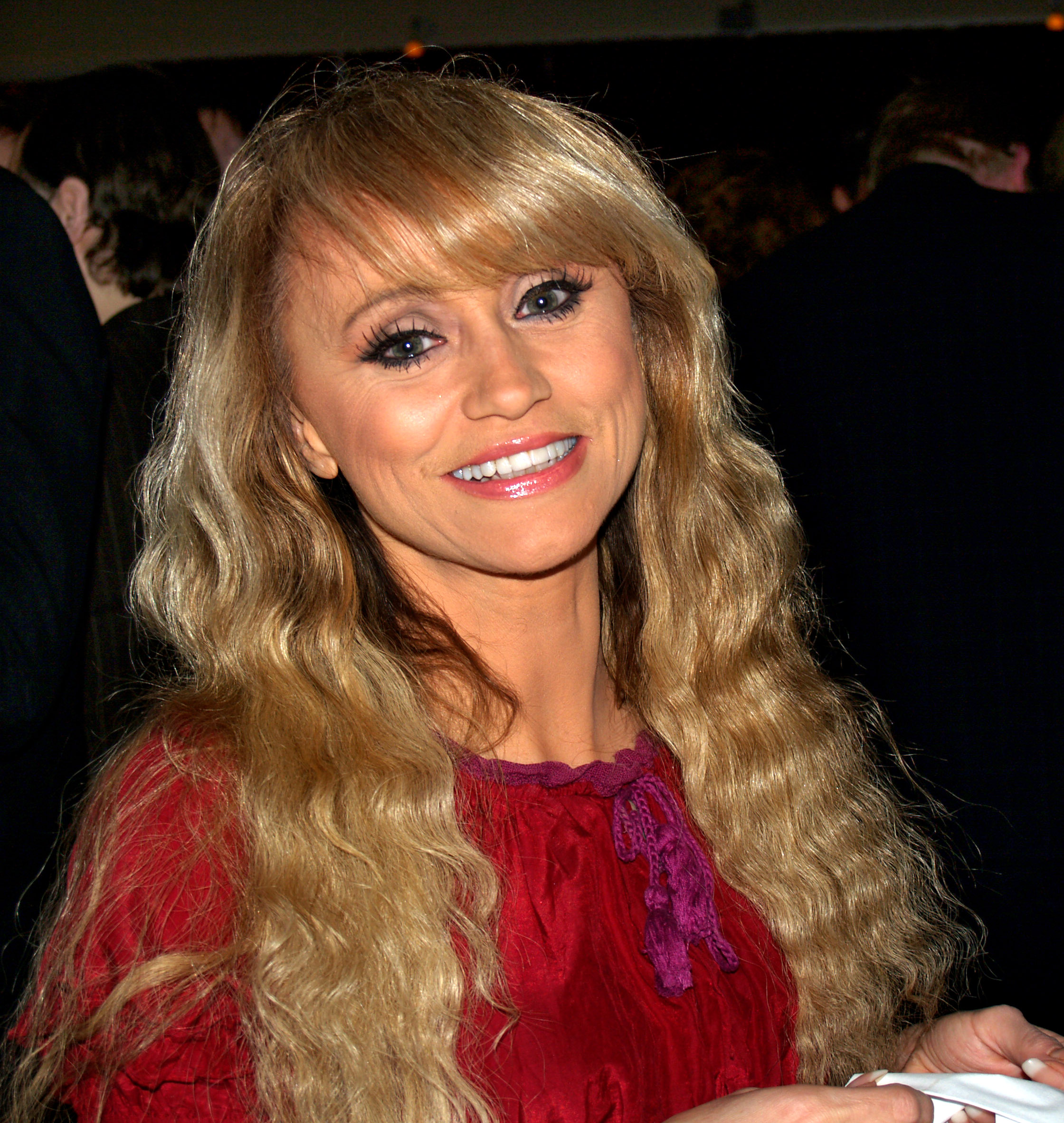 Nanne Grönvall visiting the after party in Gothenburg after Melodifestivalen 2010 semifinal.